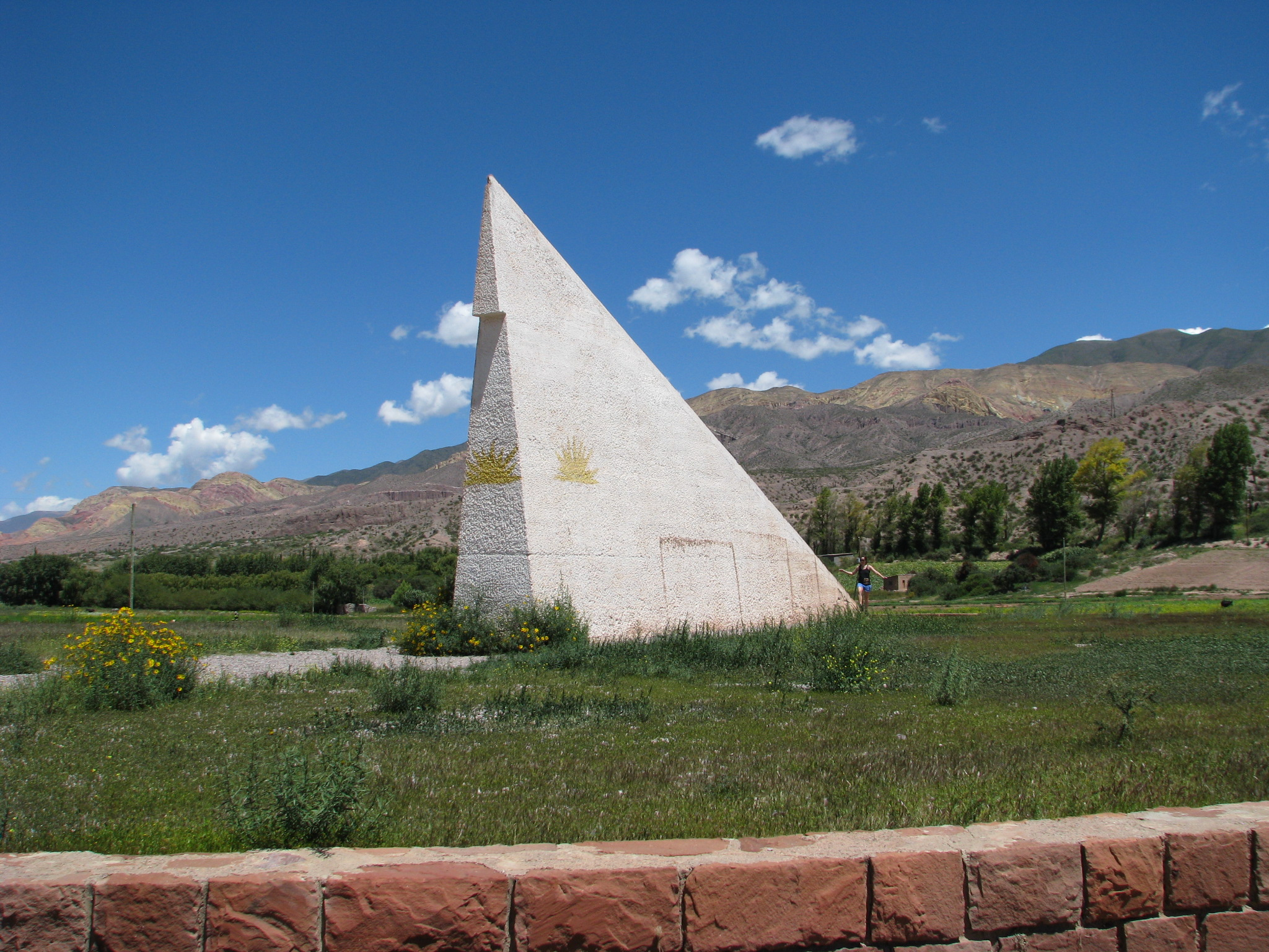 Reloj Solar del Trópico de Capricornio, Jujuy, Argentina